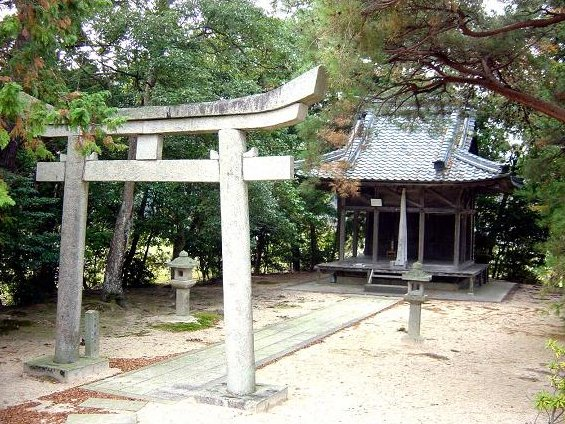 Gwisil Shrine in Hino Town in Shiga Prefecture, Japan which enshrines Gwisil Jipsa who settled in Japan from Baekje.